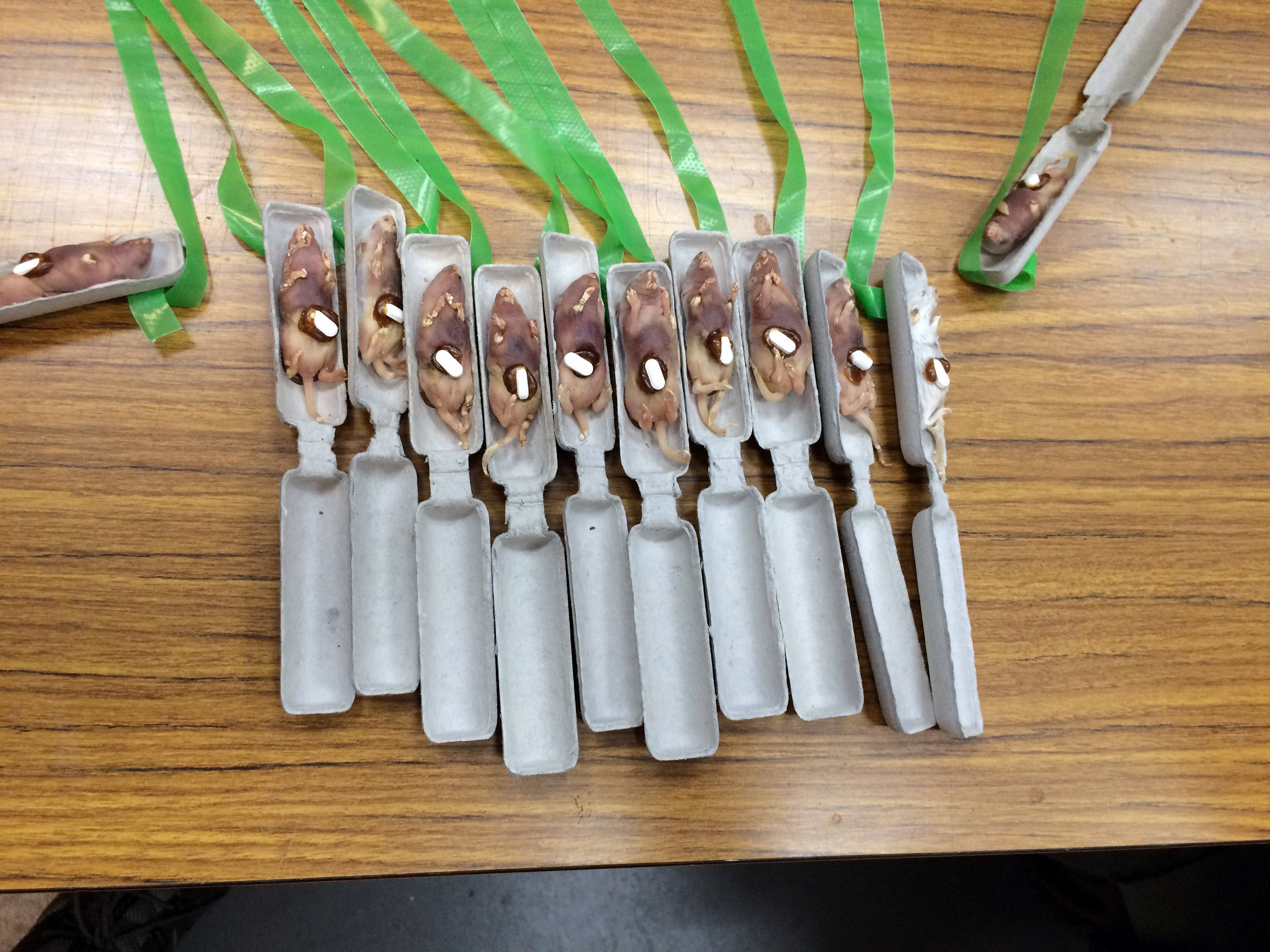 Newly designed aerial bait cartridges consist of dead mice with 80-mg acetaminophen tablets and a biodegradable streamer-like cartridge. The cartridge is designed to snag on trees where invasive brown tree snakes are known to feed. The cartridge and automated aerial bait delivery system were designed by Applied Design Corporation engineers and the U.S. Department of Agriculture (USDA) Animal Plant Health Inspection Service (APHIS) Wildlife Services researchers on Guam in July 2016. USDA photo by APHIS Wildlife Services.